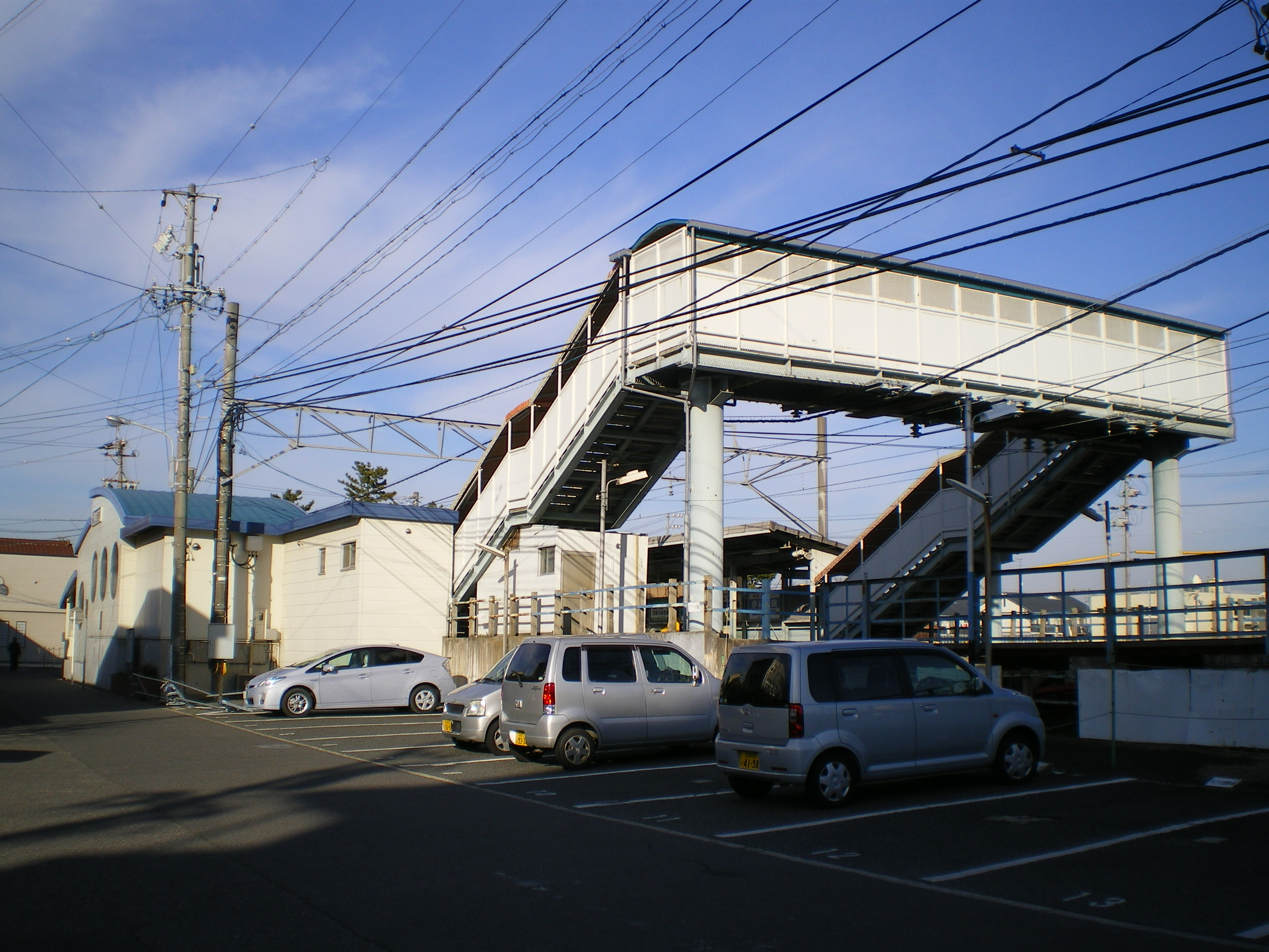 Nagoya Railroad Tokoname Line Ōnomachi Station Building